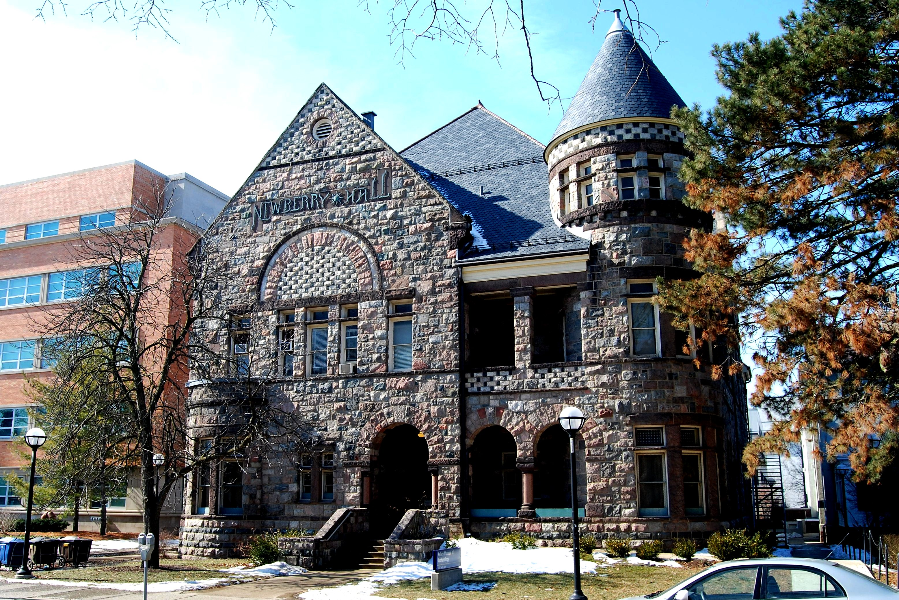 University of Michigan, Newberry Hall, Kelsey Museum